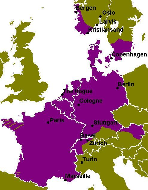 The language areas in Europe, where the use of some kind of Guttural-R